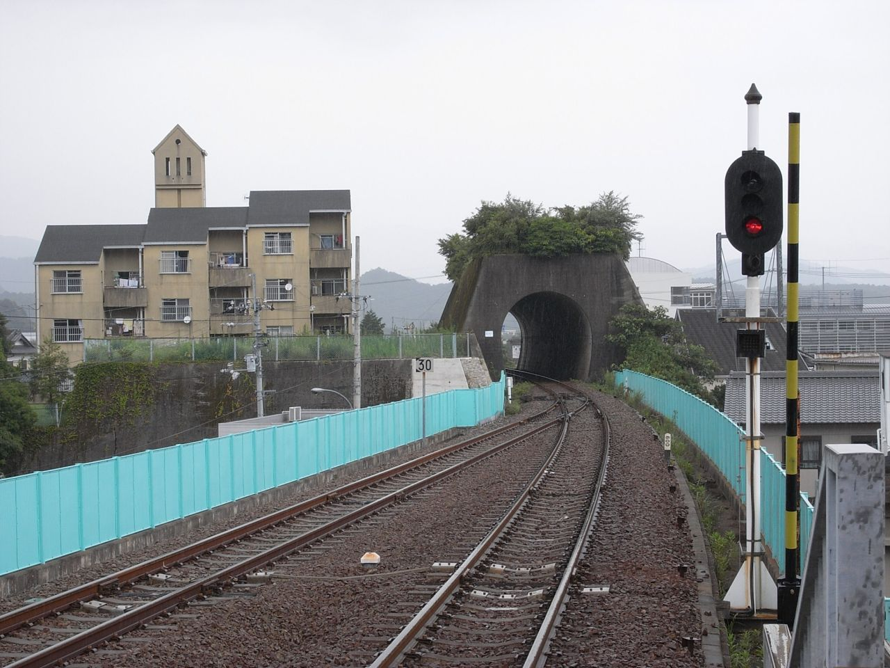 Tomason tunnel -- an image of a "Tomason" or a kind of conceptual art, a visual feature of the urban environment which no longer serves any purpose